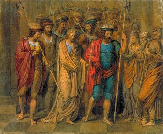 The Penance of Jane Shore, ink and watercolor, finished with sizing, on paper. 245 x 295 mm